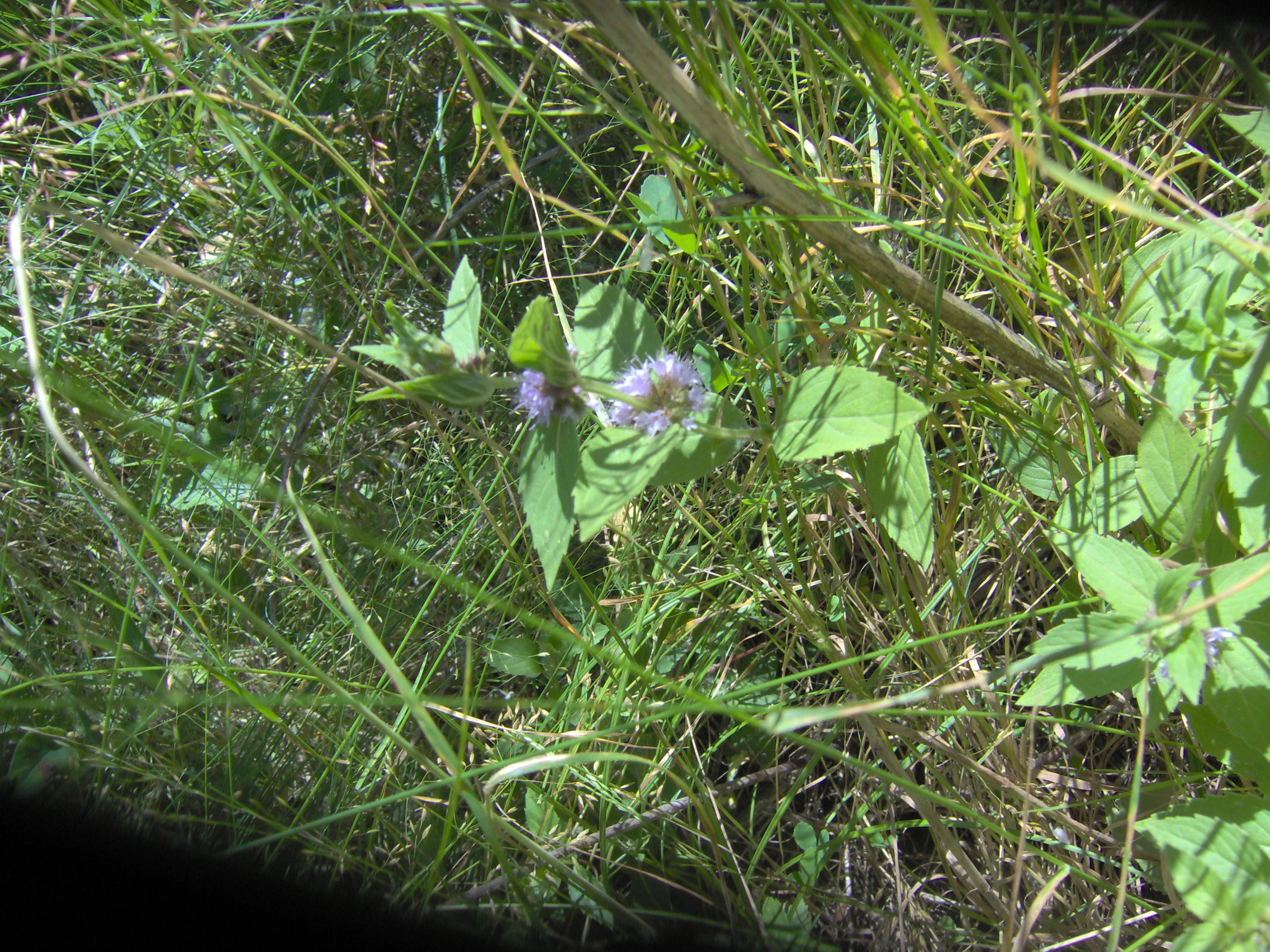 Wild Mint in Saskatchewan Mentha canadensis (Lamiaceae). Leaf smells minty if pinched between fingers. Chew leaves or drink tea.